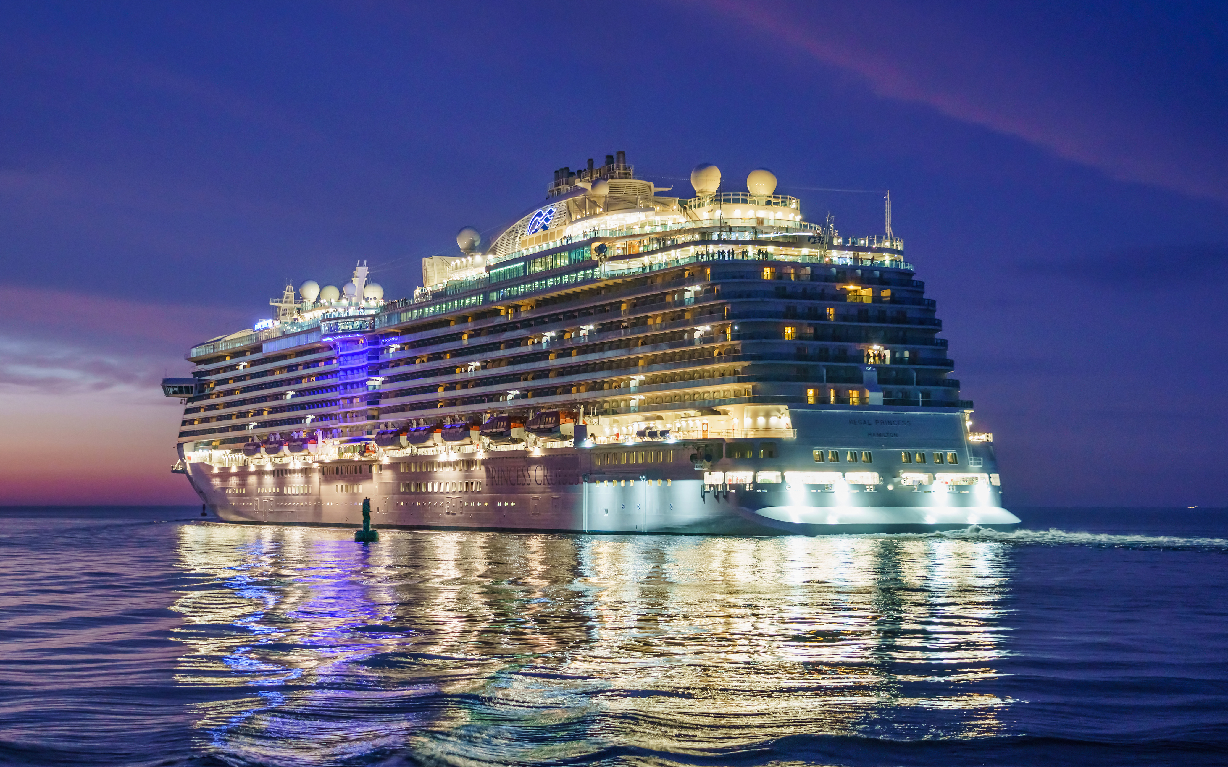 Cruise ship Regal Princess near the port of Warnemünde, Rostock, Germany